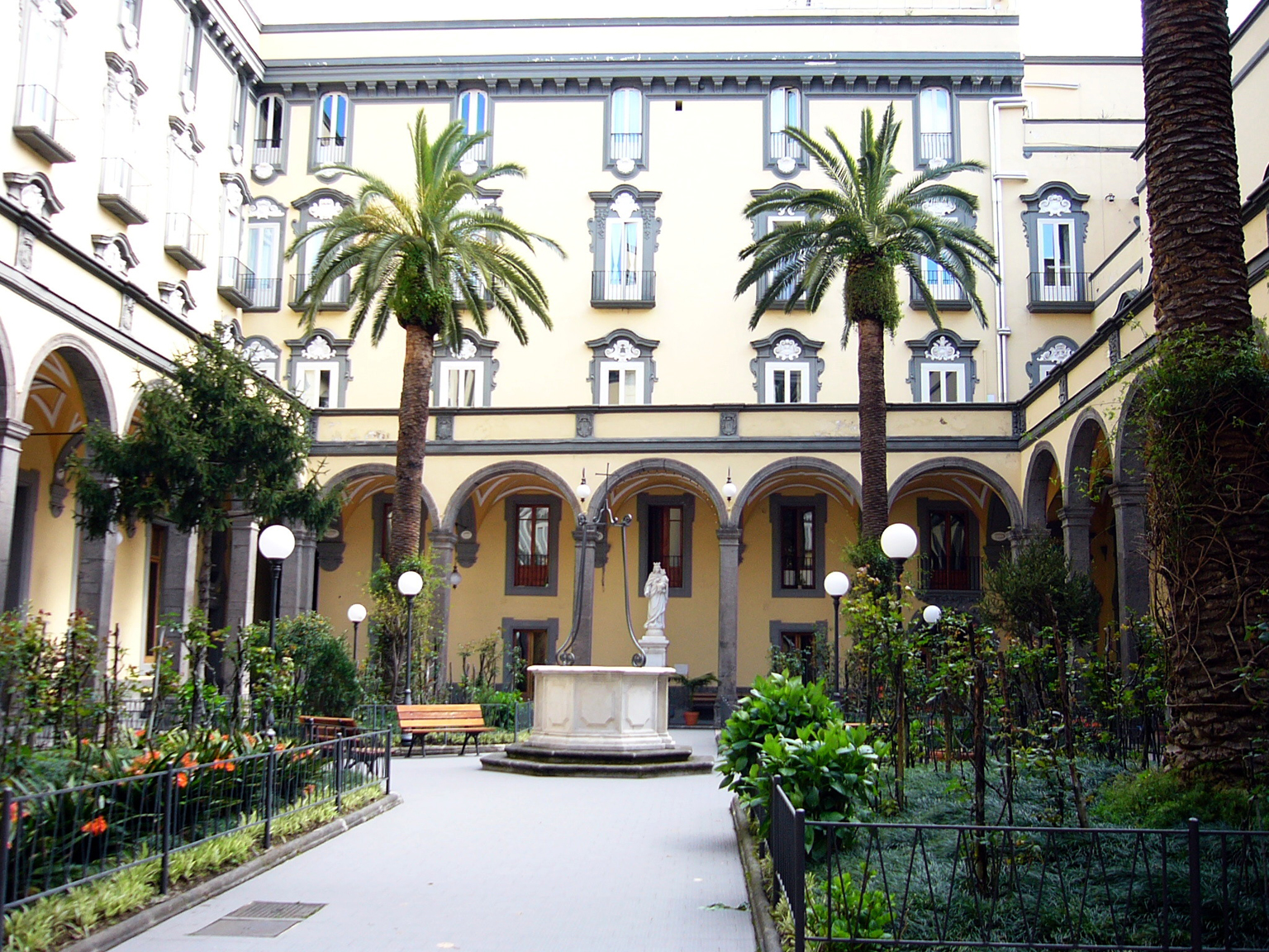 cloister of Monteverginella